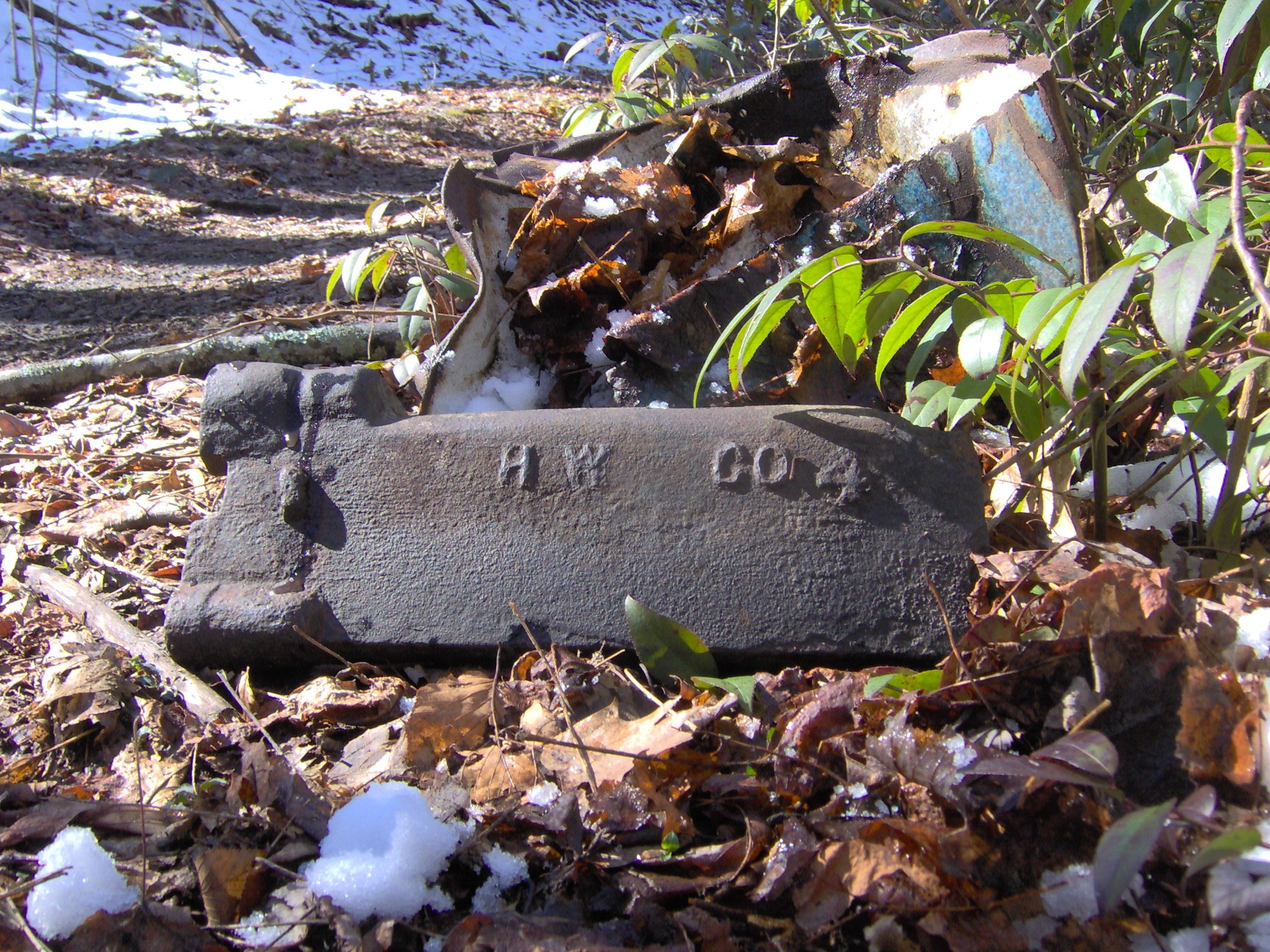 Machine parts and the remnants of a blue wash basin along the Meigs Mountain Trail in the Great Smoky Mountains of East Tennessee, in the southeastern United States. These parts are found along the west bank of Blanket Creek.